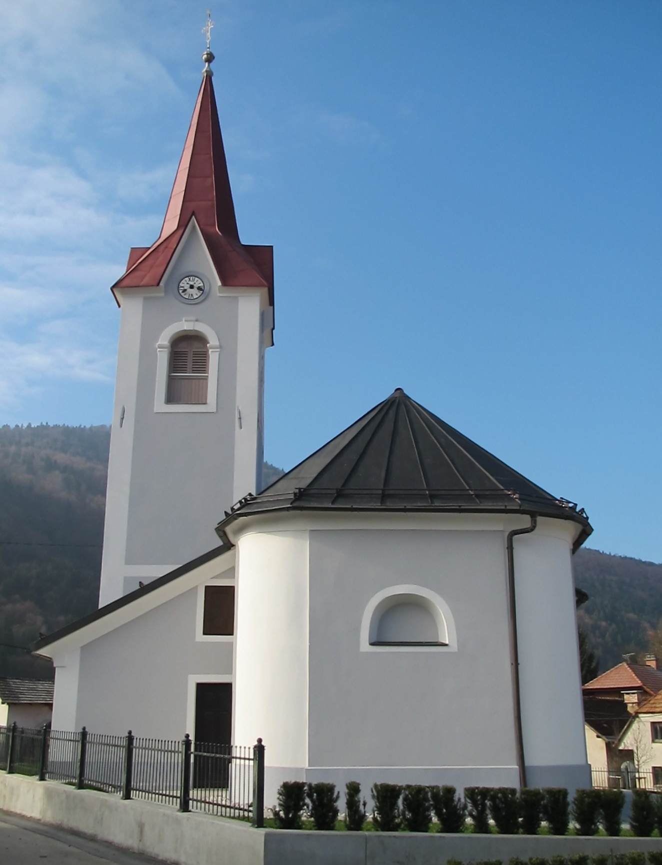 Church in Kompolje, Municipality of Dobrepolje, Slovenia